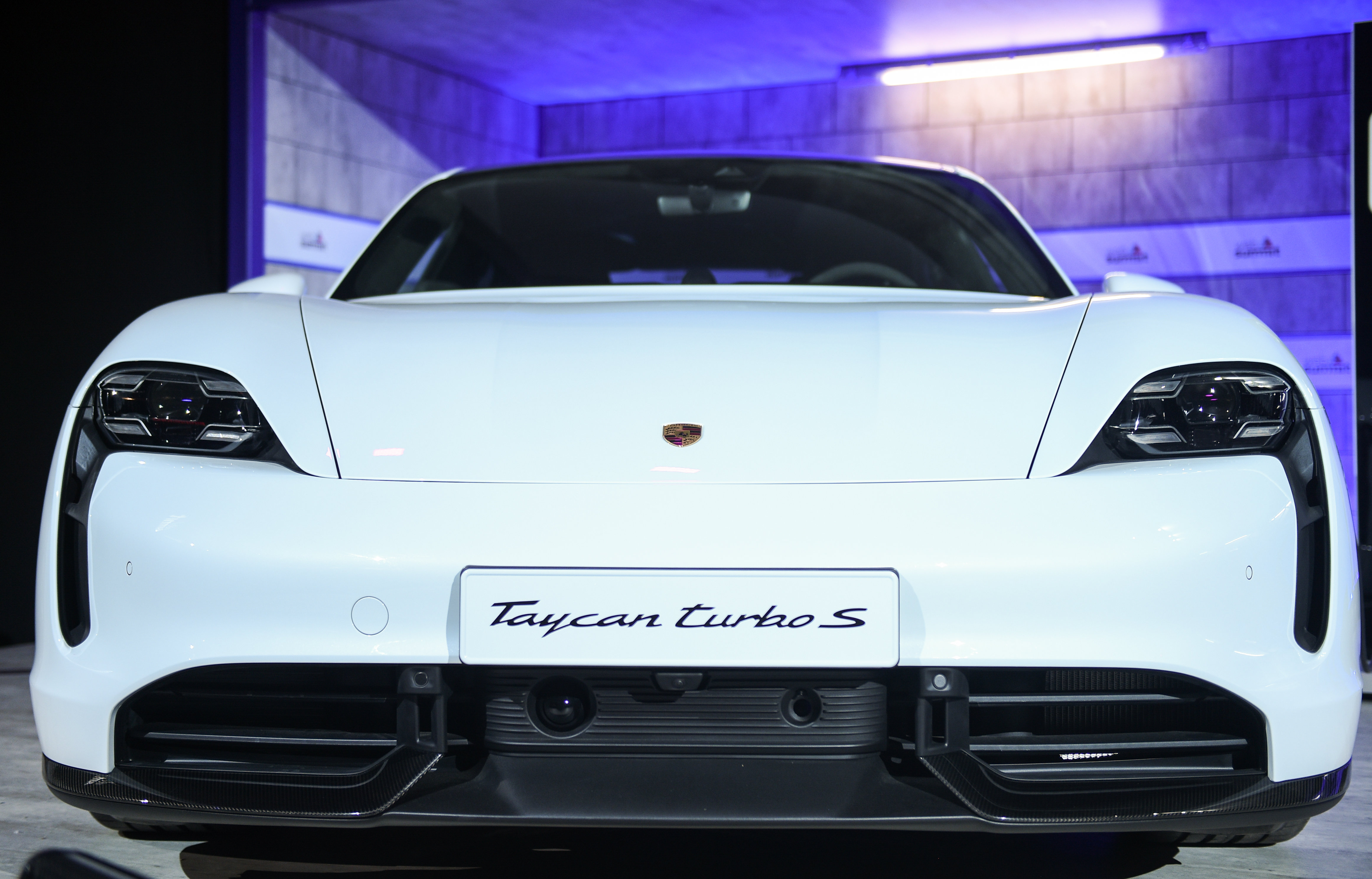 5 November 2019; The Porsche Taycan Turbo S is seen on Auto/Tech & TalkRobot Stage during the opening day of Web Summit 2019 at the Altice Arena in Lisbon, Portugal. Photo by Cody Glenn/Web Summit via Sportsfile